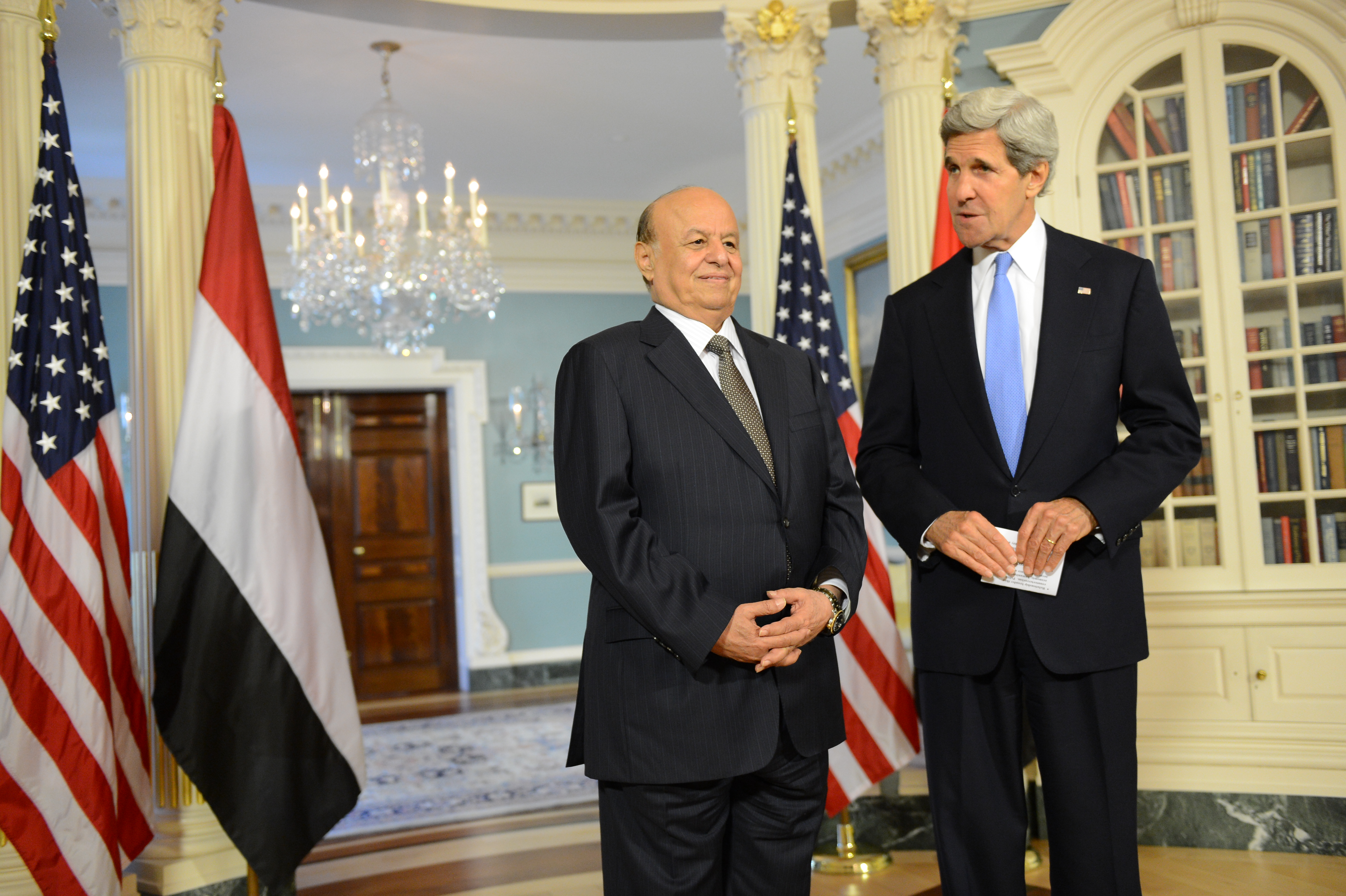 U.S. Secretary of State John Kerry and Yemeni President Abdo Rabbo Mansour Hadi address reporters before their bilateral meeting at the U.S. Department of State in Washington, D.C., on July 29, 2013. [State Department photo/ Public Domain]